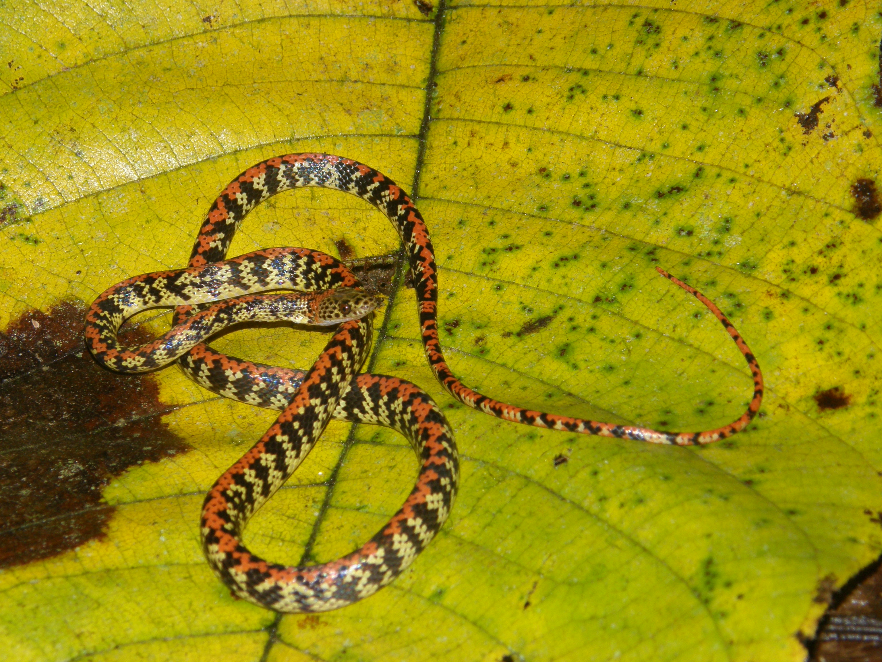 A very pretty snake. Found along pipeline road.